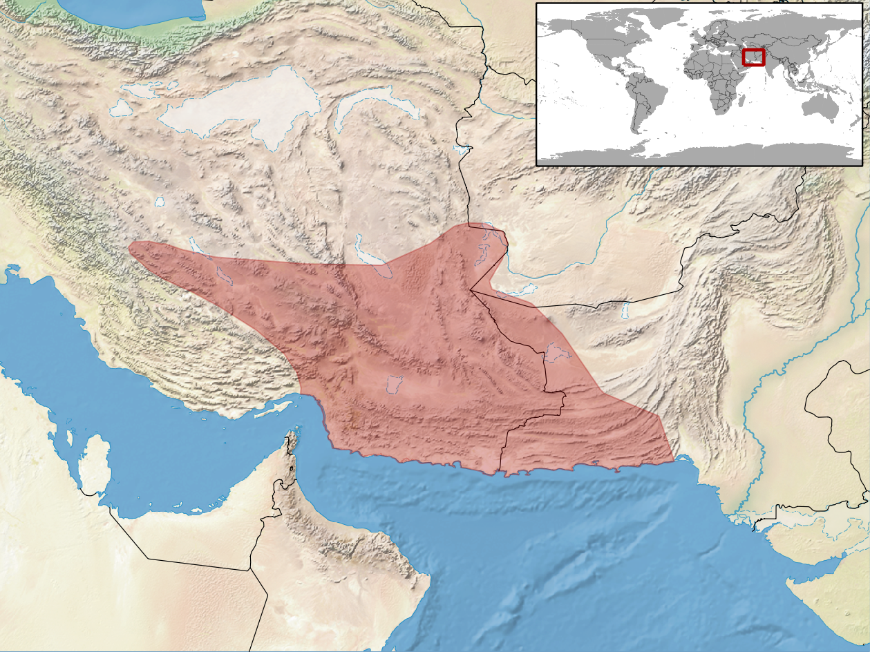 geographic distribution of Cyrtopodion agamuroides (Native: Iran, Islamic Republic of; Pakistan)